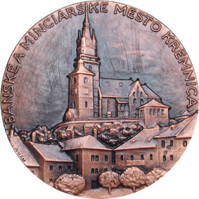 Kremnica Plaquette by Anton Hám, 1930, bronze, 250 mm